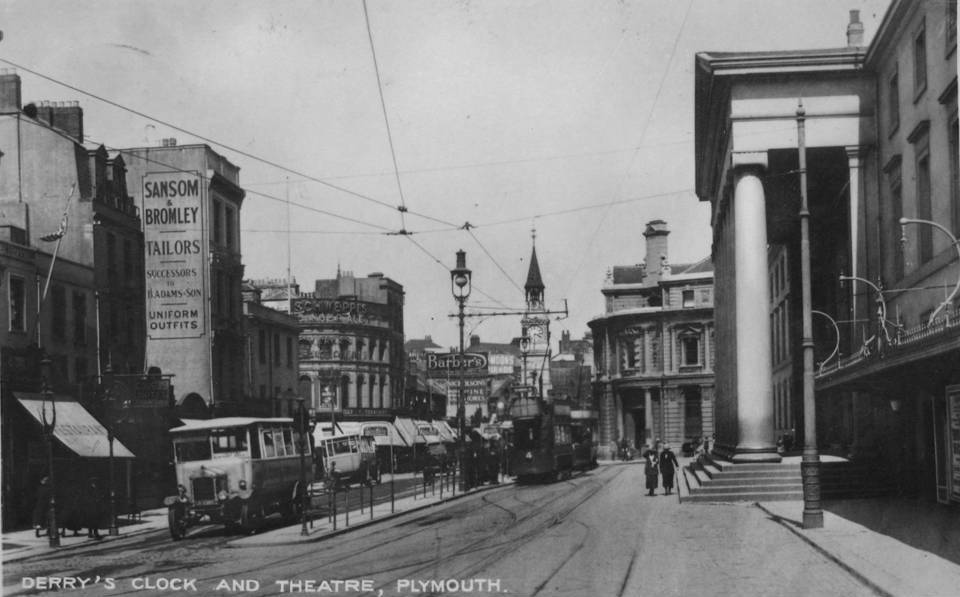 A view eastwards at the old Theatre Royal in Plymouth. This was the town's central tram terminus and two tram cars can be seen, but to the left are two of Plymouth Corporation's motor buses, the first of which went into service in 1920.